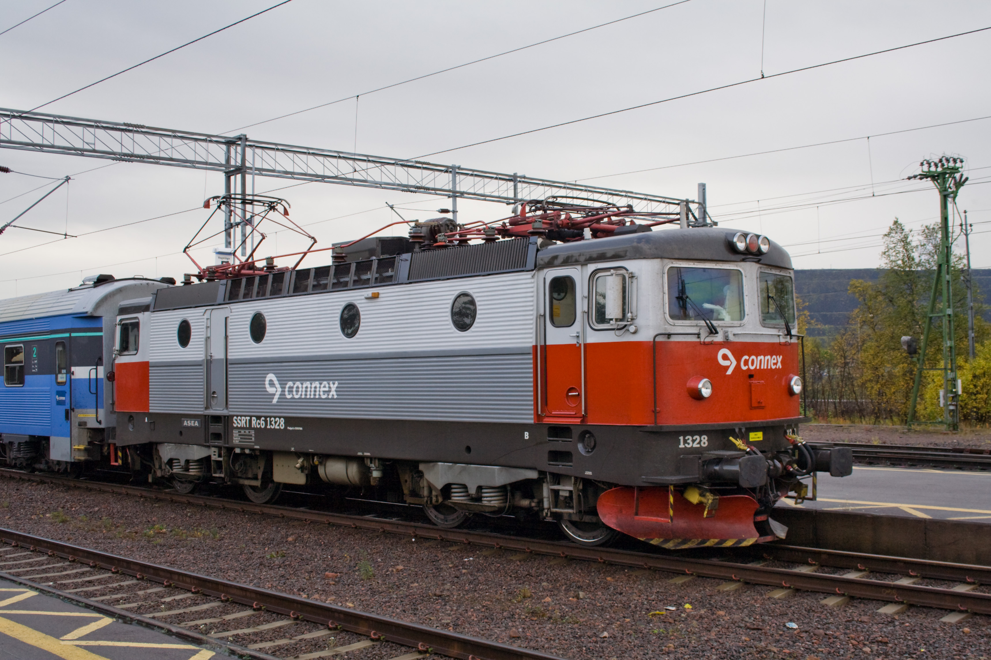 RC6 engine operated by Connex at Kiruna C station